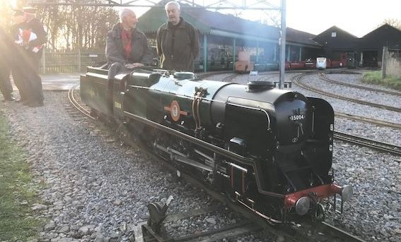 Cunard White Star